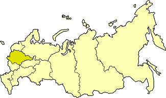 Central economic region based on Image:Economic regions of Russia.png